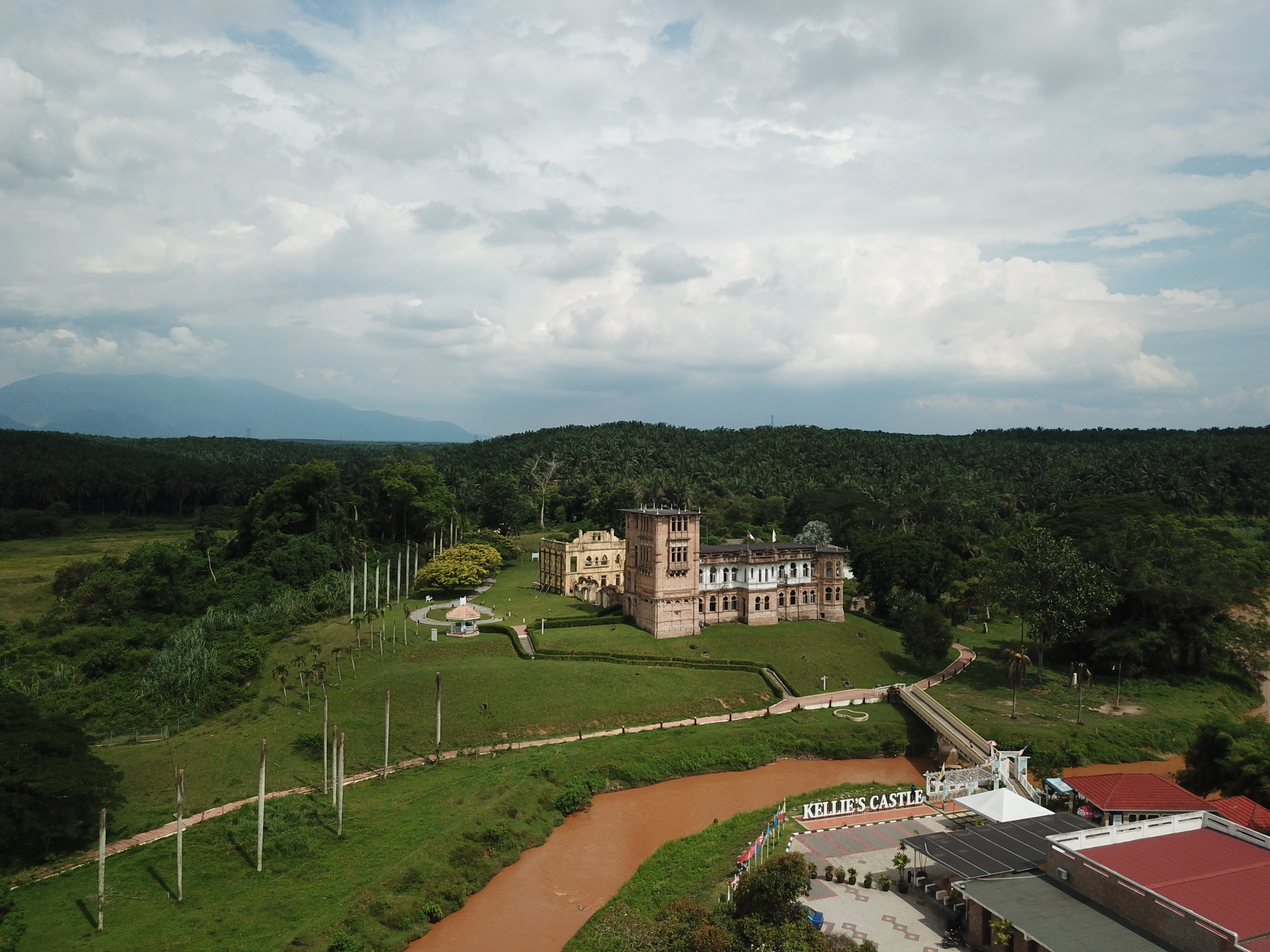 Kellies Castle and the landscape in 2018